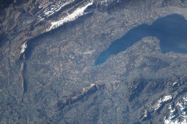 Image of Geneva the western end of Lake Geneva. Reworked (adjusting brightness, contrast and colour balance) from Lake-Geneva-west-satellite.jpg, which was downloaded from